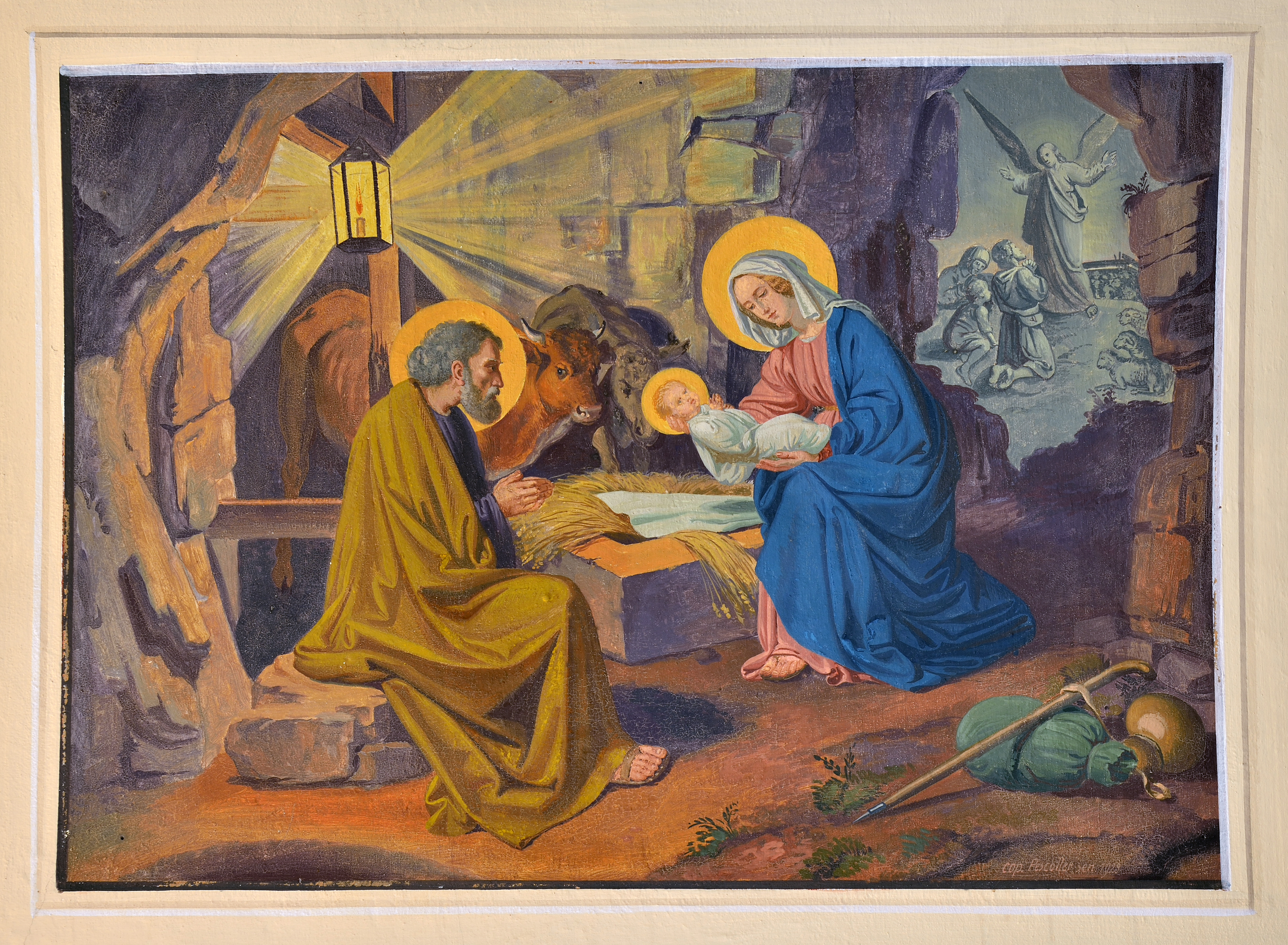 Fresco with nativity on the ceiling of the Saint Mary chapel at Costadedoi in San Ciascian